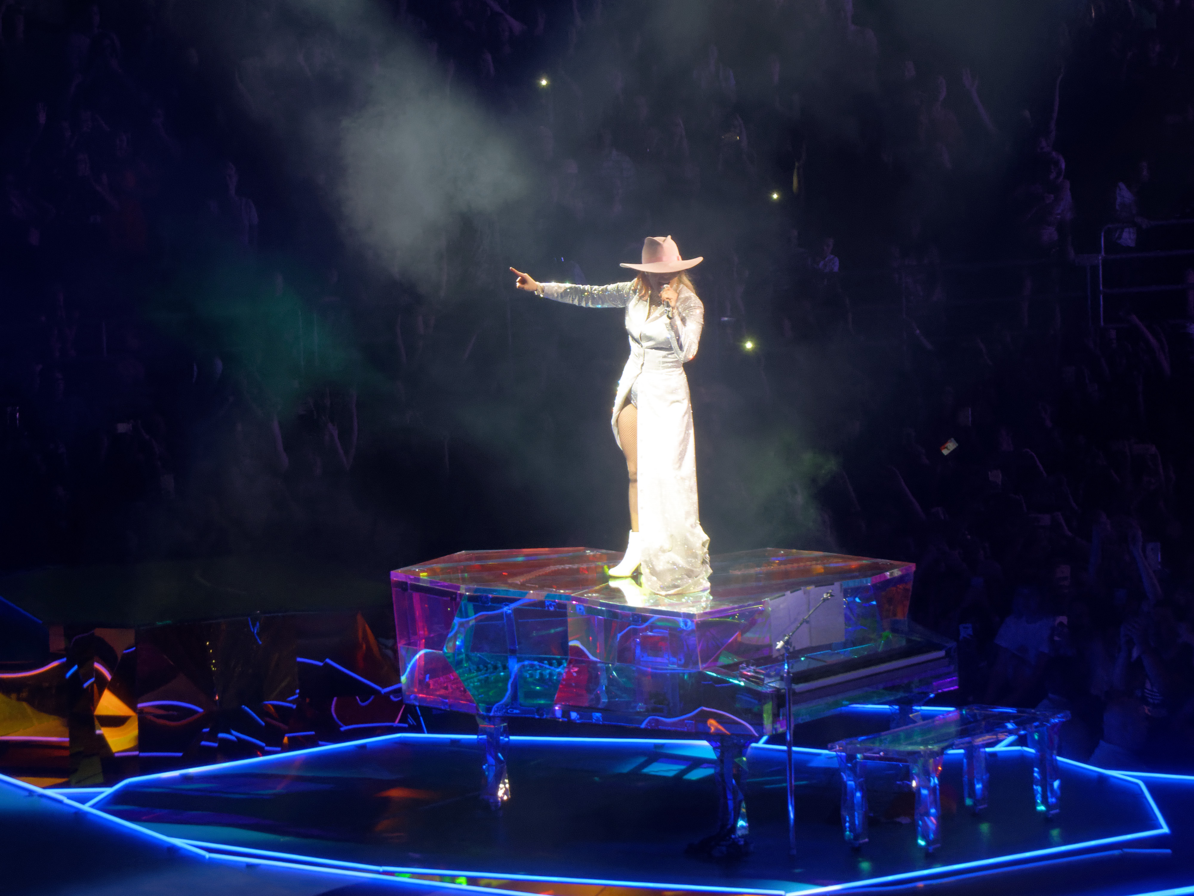 Lady Gaga performing "Million Reasons" at Joanne World Tour in Tacoma